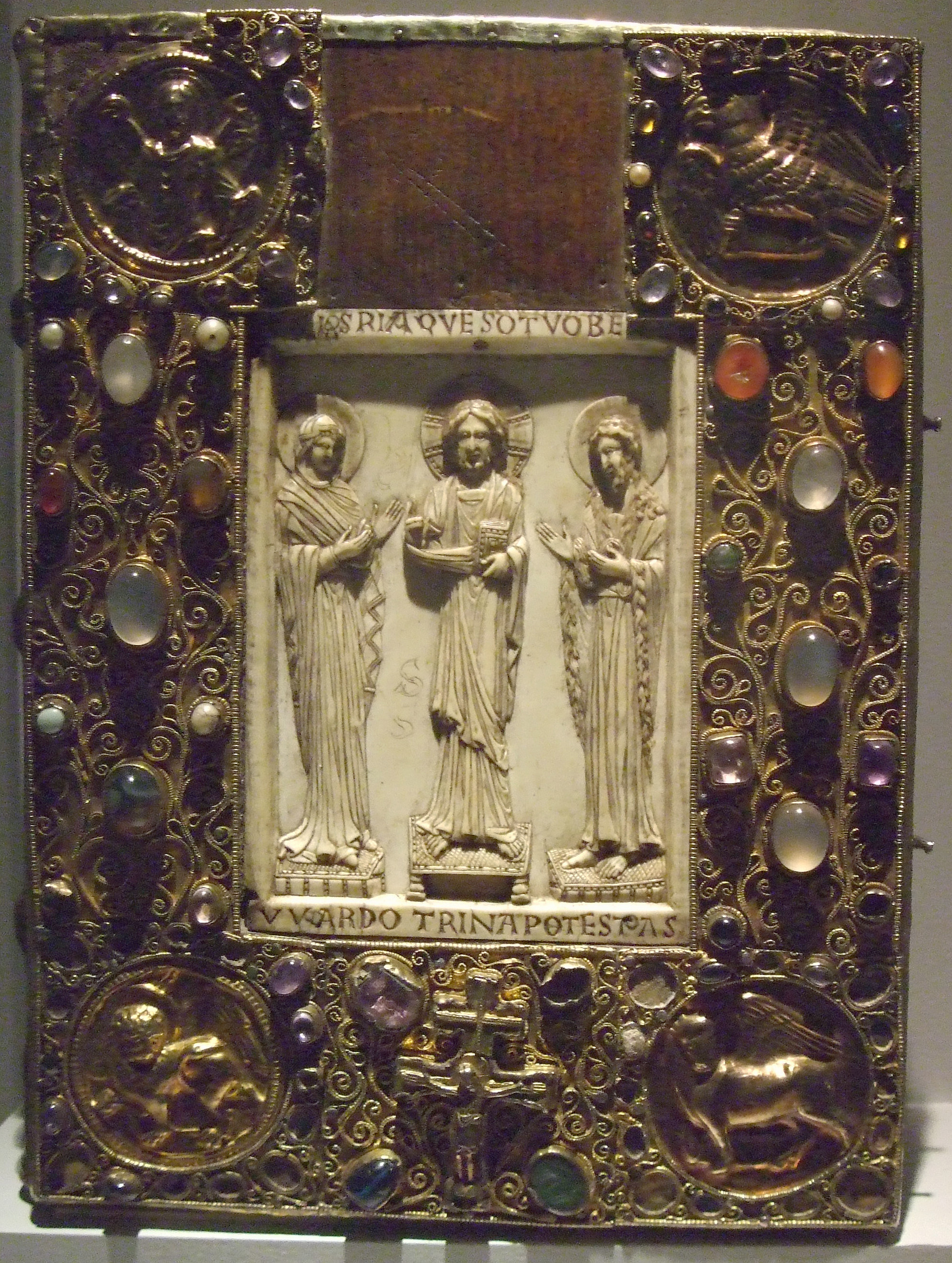 Front cover of an evangeliar of bishop Bernward ("Kostbares Bernwardevangeliar"), made about 1000. Museum of the cathedral of Hildesheim, Germany. Center: Bycantine icon made of ivory on oak-wood, showing Jesus Christ with mother Maria and St. John.